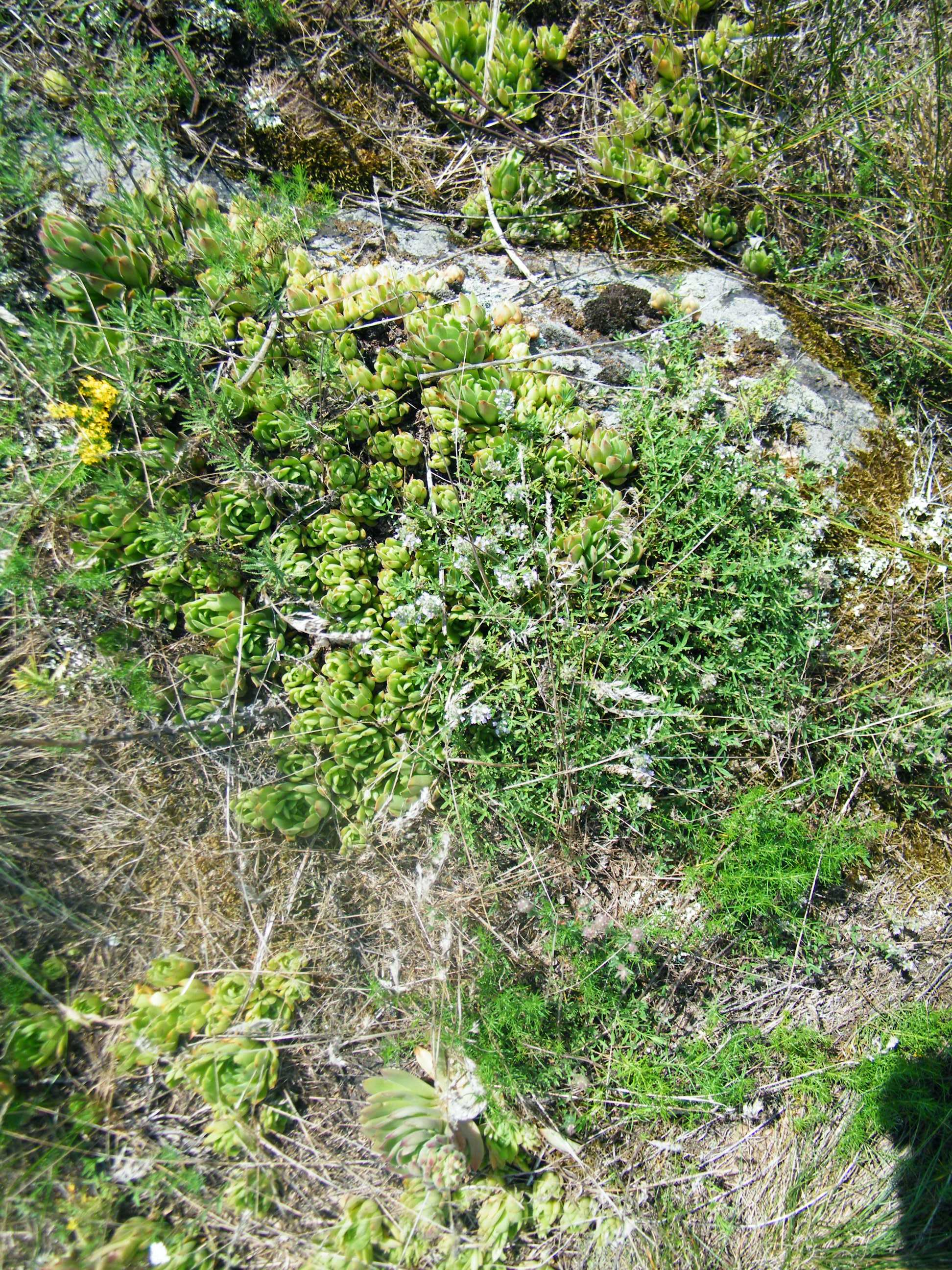 Sempervivum ruthenicum in Buzkiy Gard